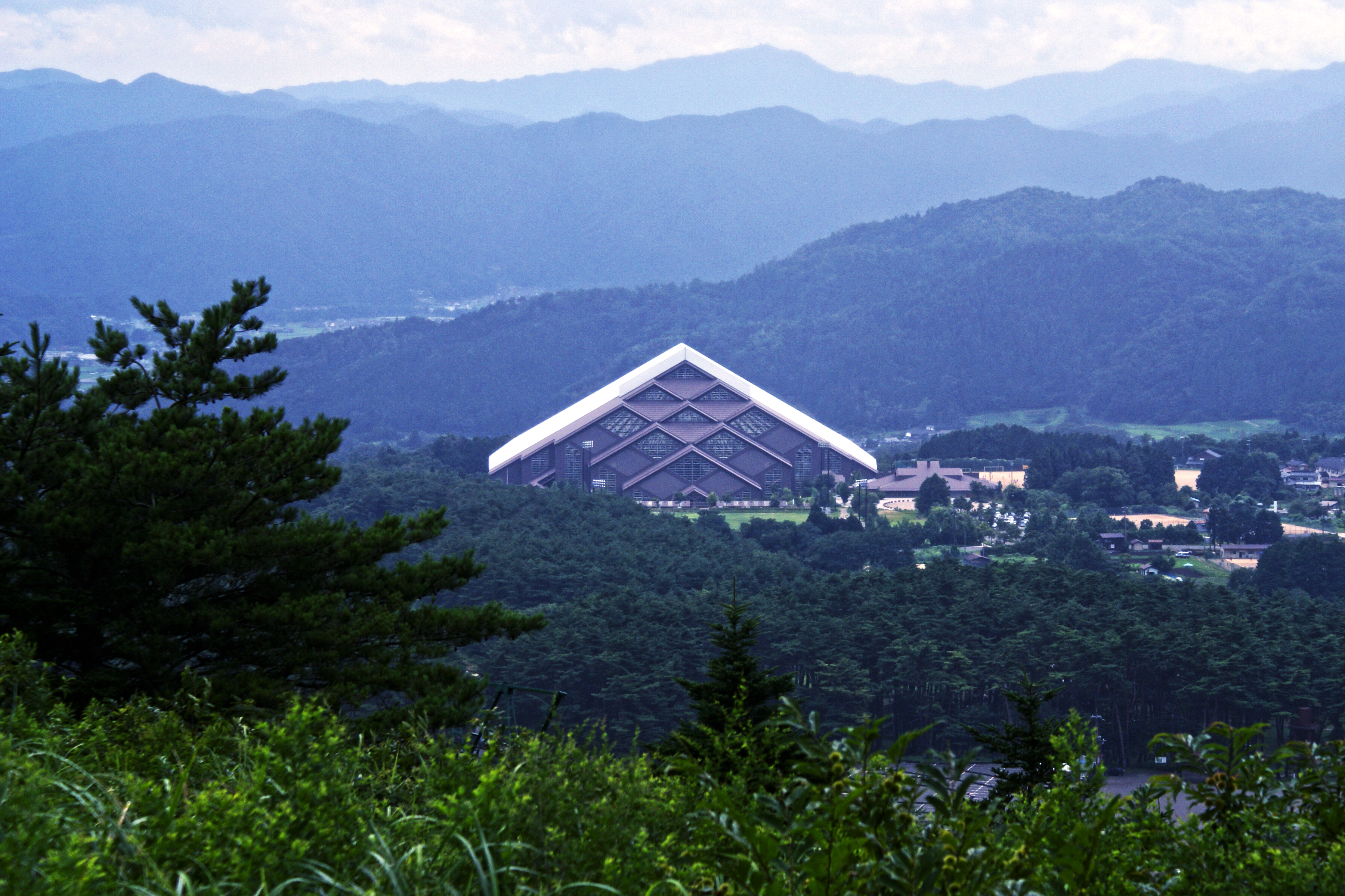 Tajima Dome in Toyooka, Hyogo prefecture, Japan